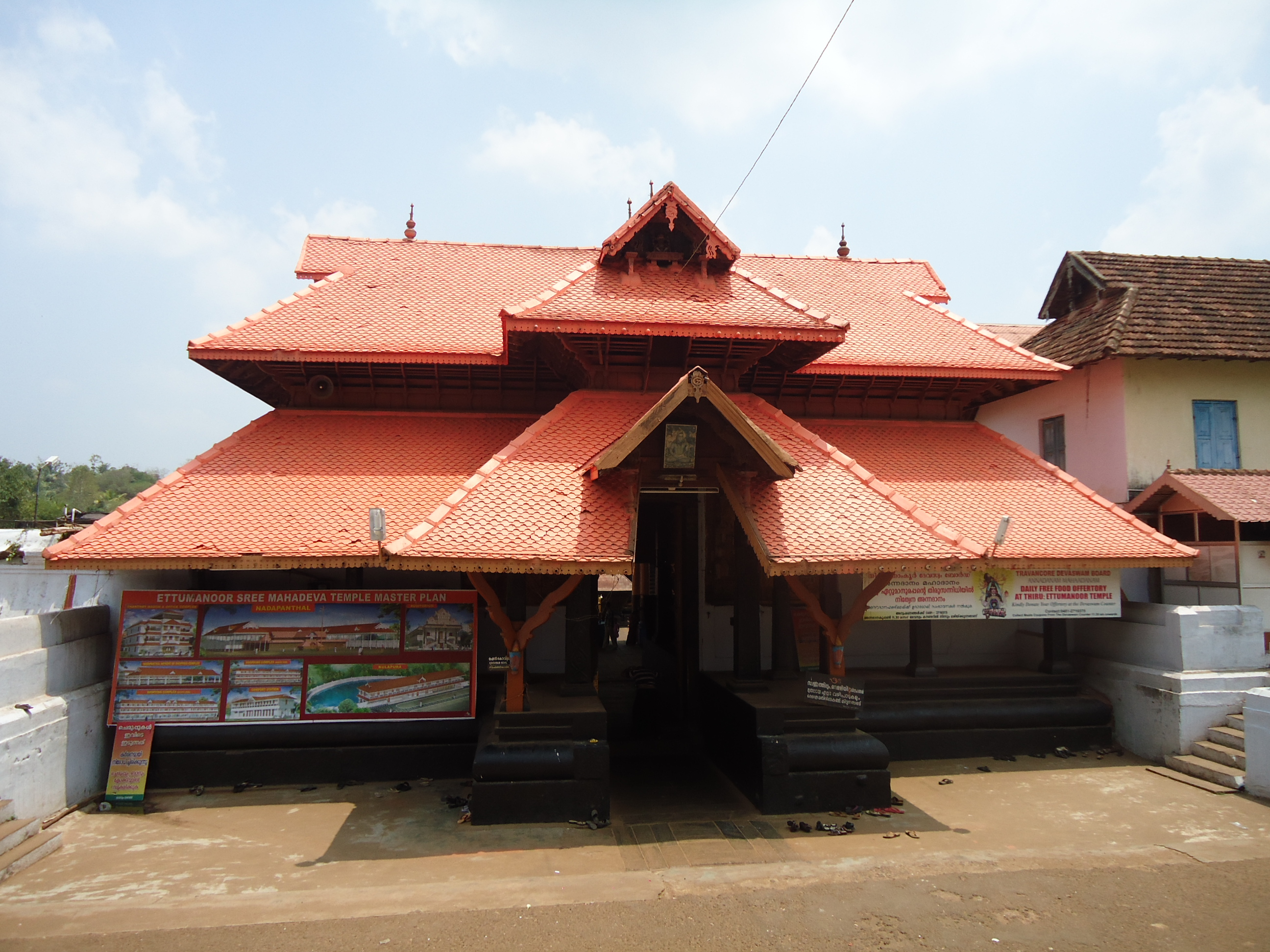 Ettumanoor Temple West Gate Entrance